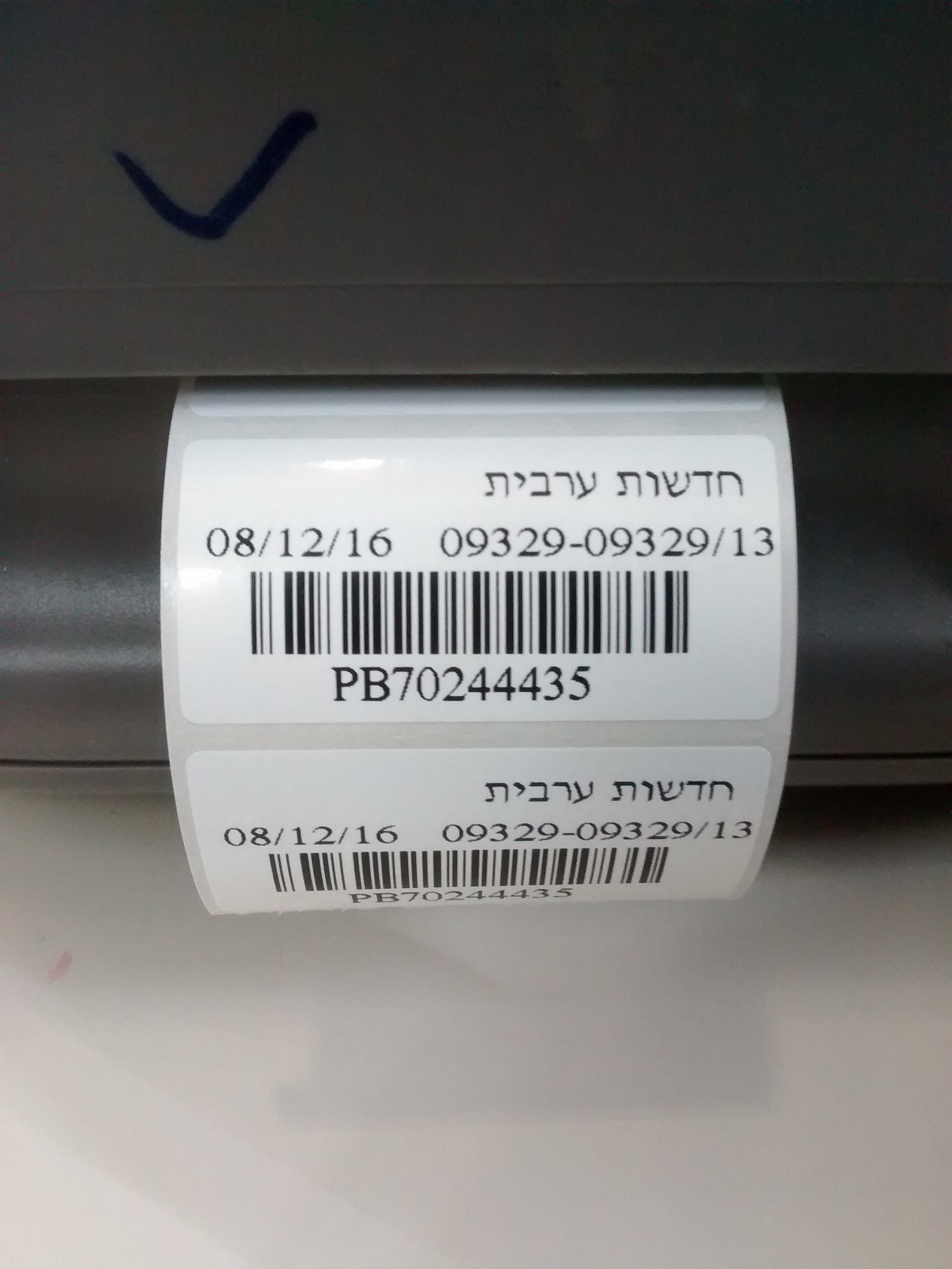 Israel Channel 1 news studio in Jerusalem 2016, Mabat LaHadashot